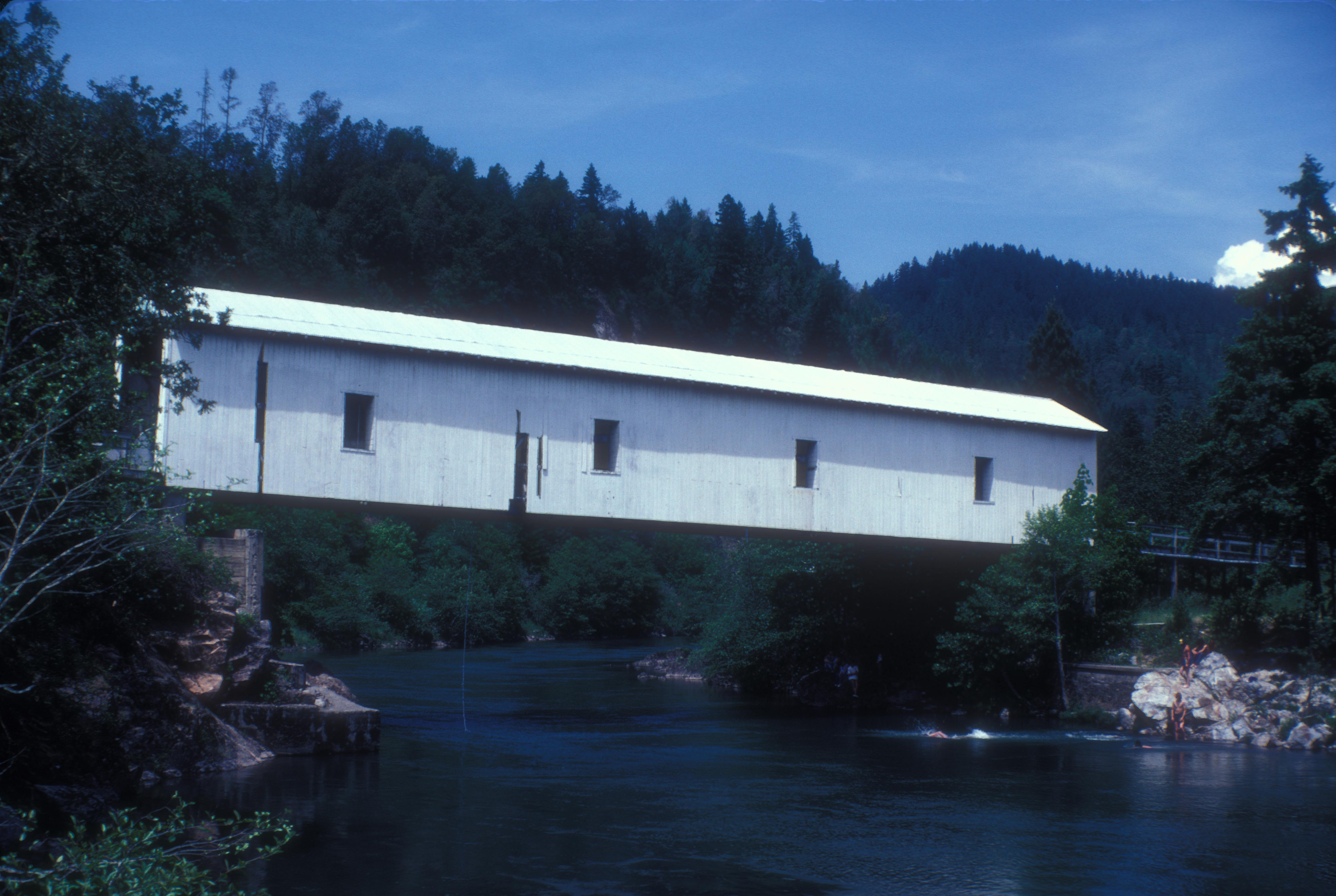 100' 1962 STEEL OVER S. UMPQUA CREEK (AS OF 2012 THIS BRIDGE IS GONE)